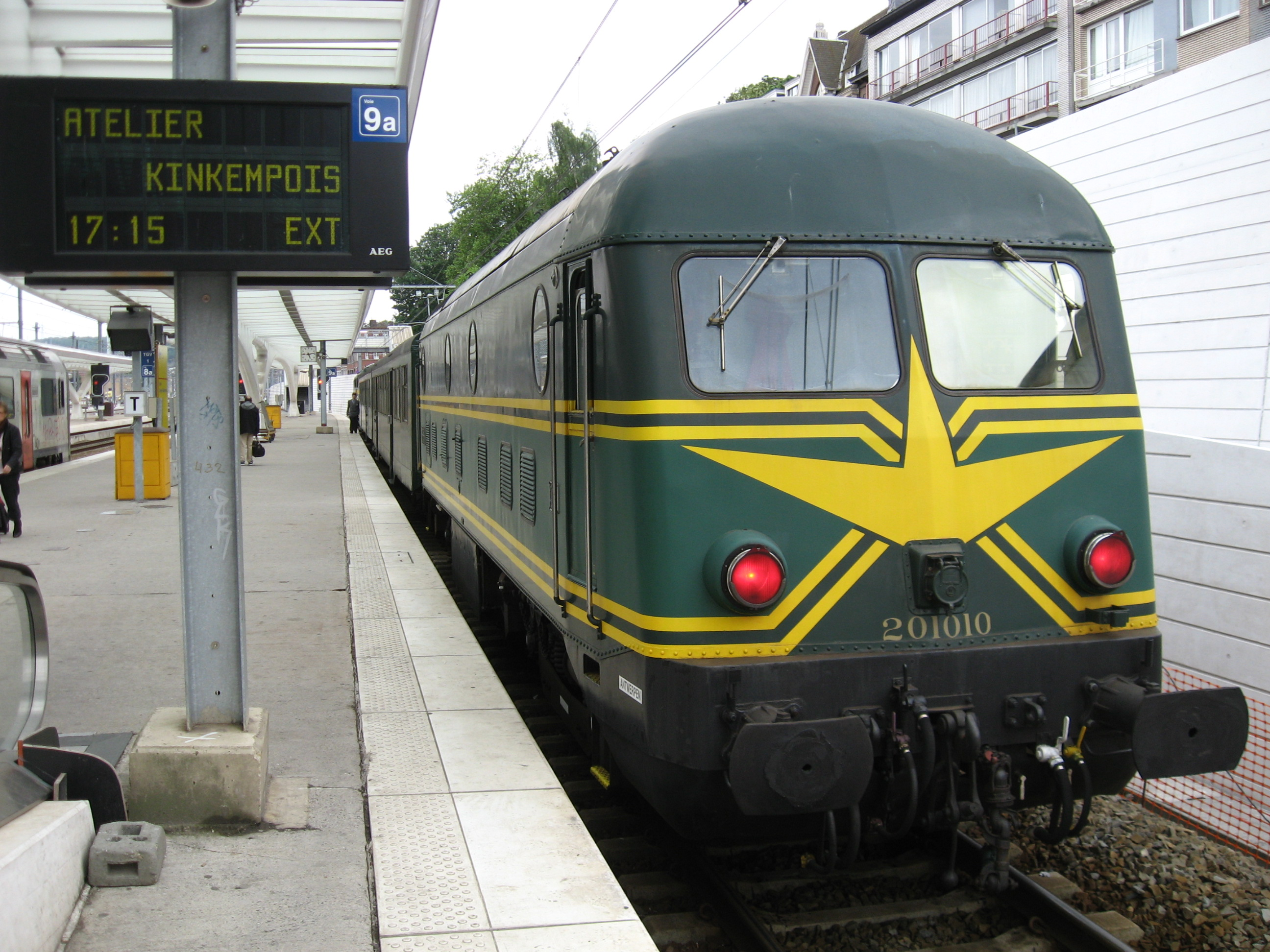 heritage loc 201010 in Liege Guillemins